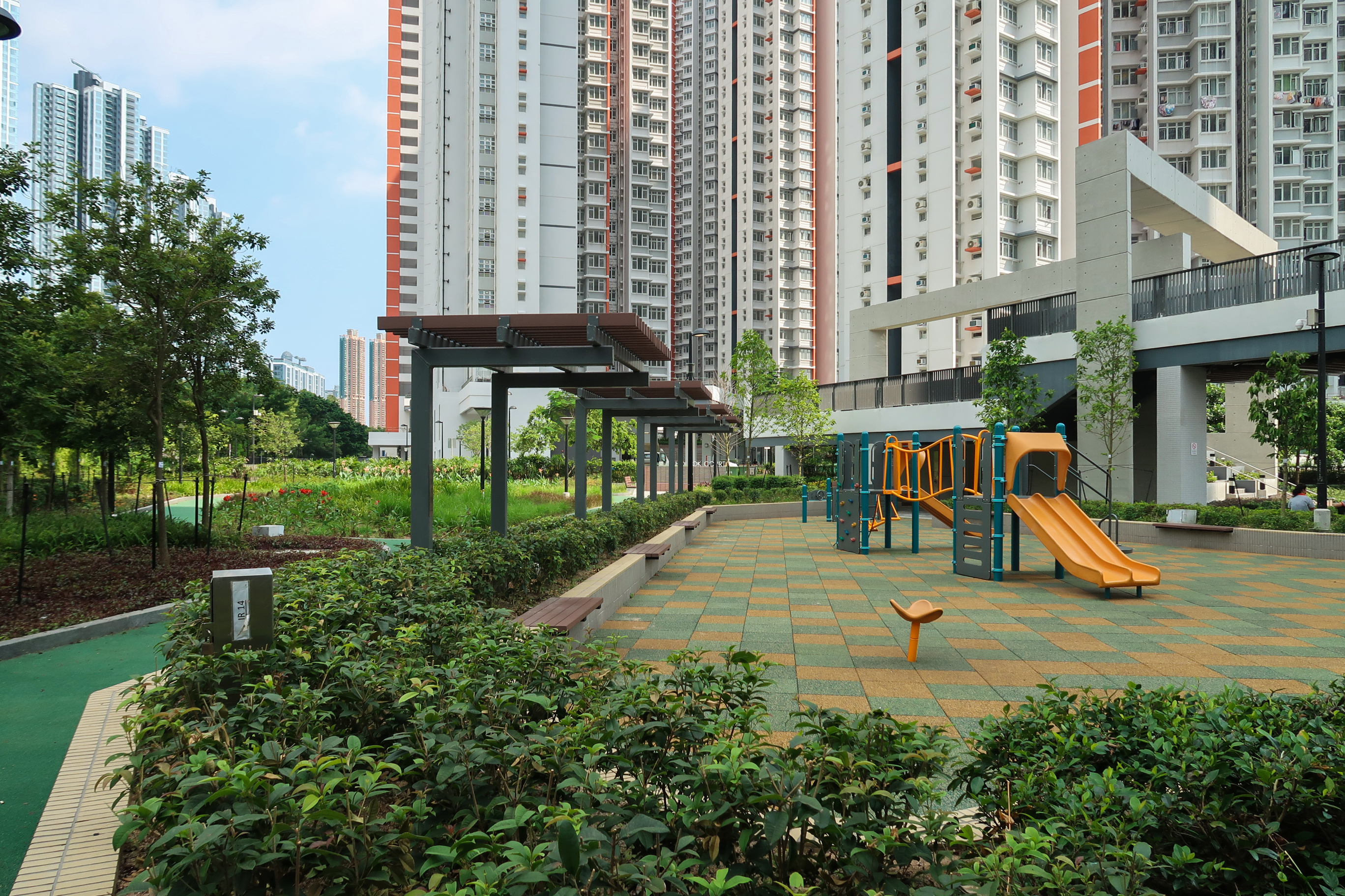 Hoi Ying Estate Children Play Area